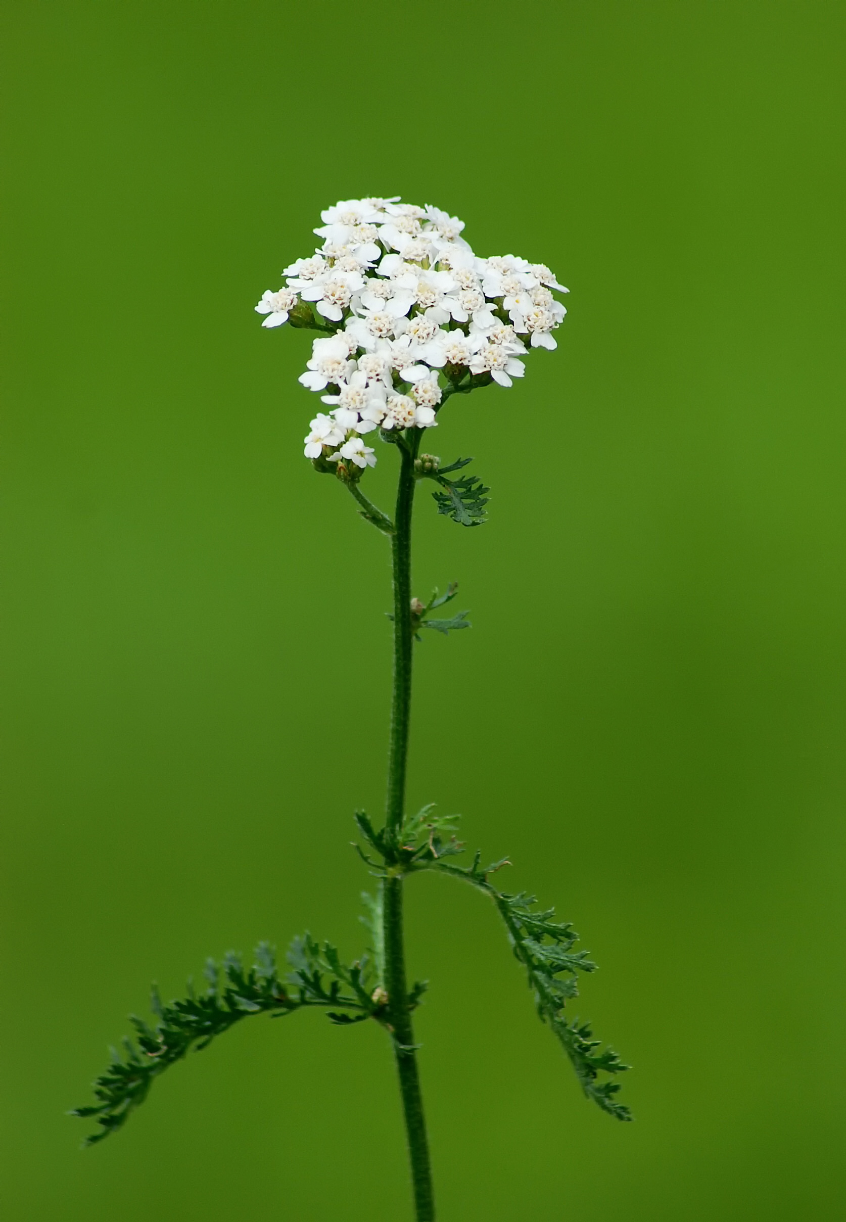 Achillea is a genus of about 85 flowering plants, in the family Asteraceae, commonly referred to as yarrow.